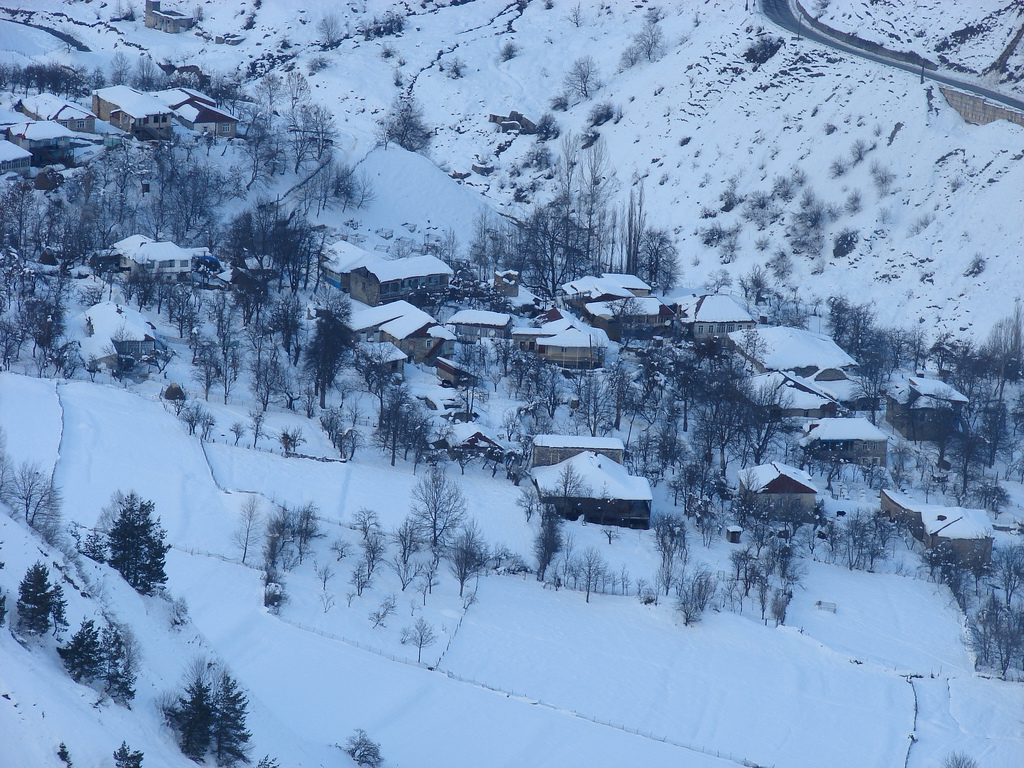 Mleta